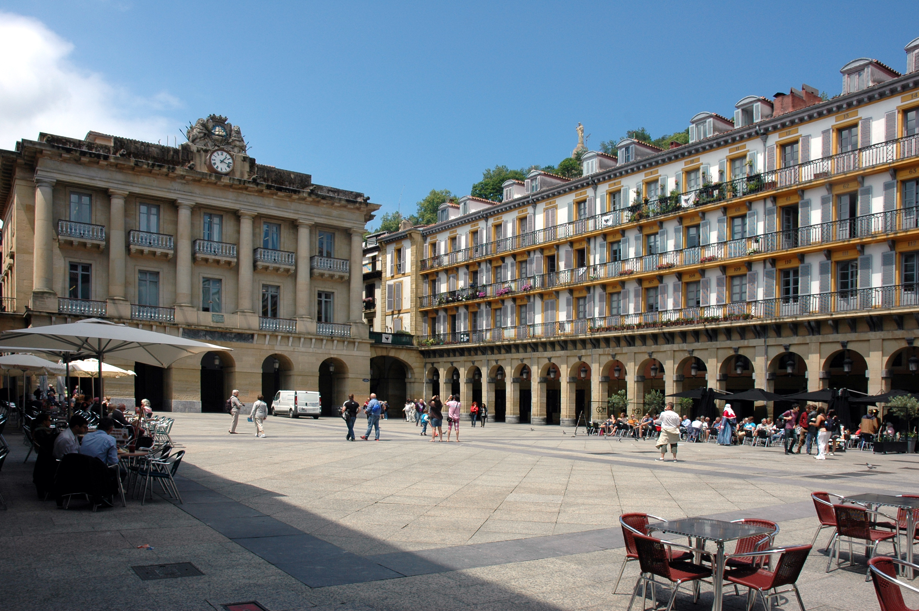 Constitution Square